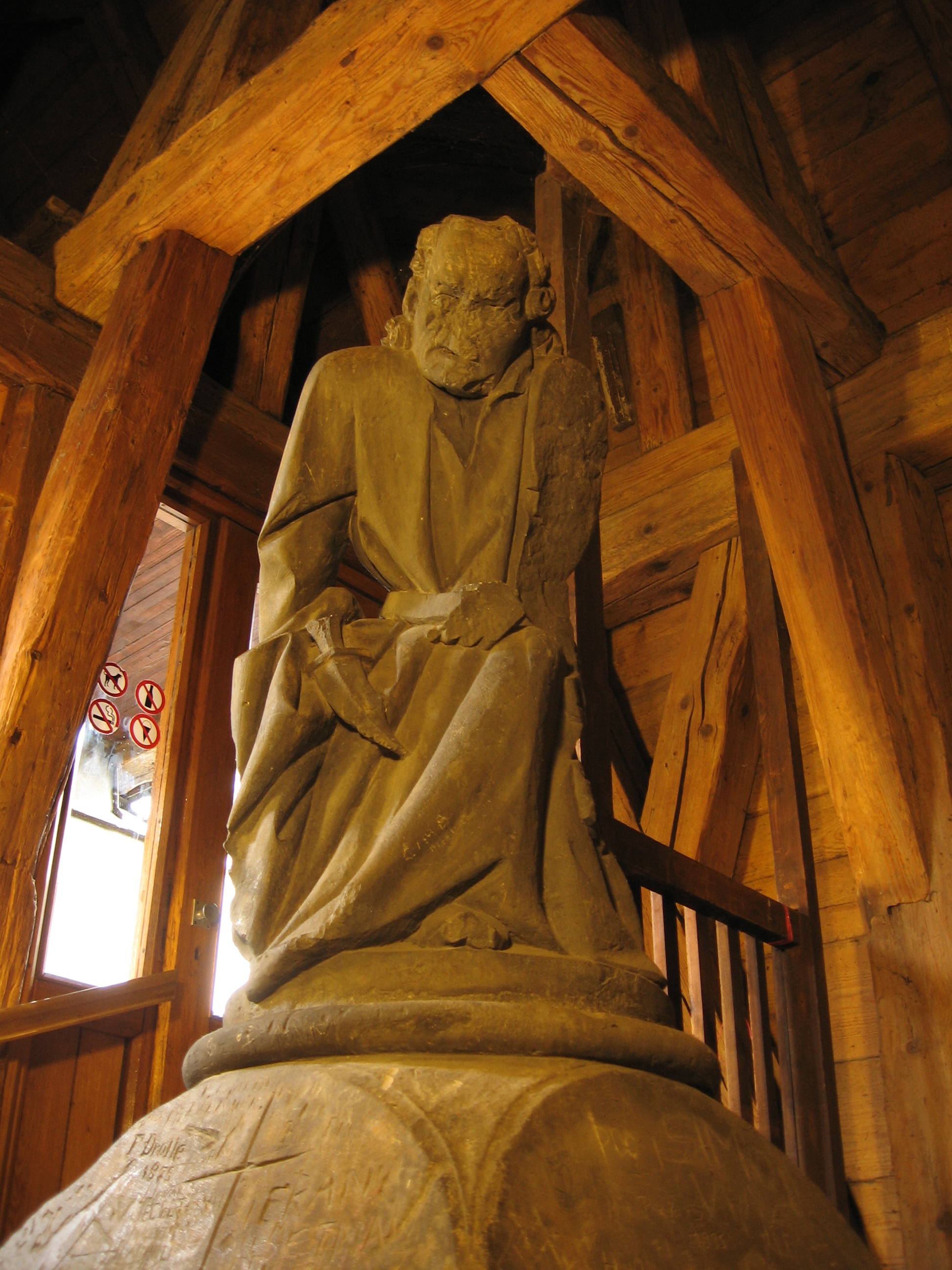 Statue of tower man in the Old Town Tower of the Charles Bridge from 14th/15th century.